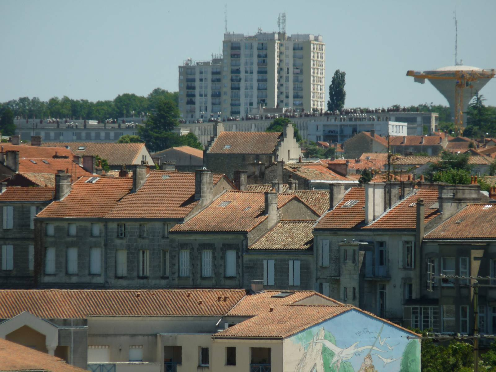 View from Rempart de l'Est (eastern city wall) in Angoulême, South-West of France, towards Soyaux.